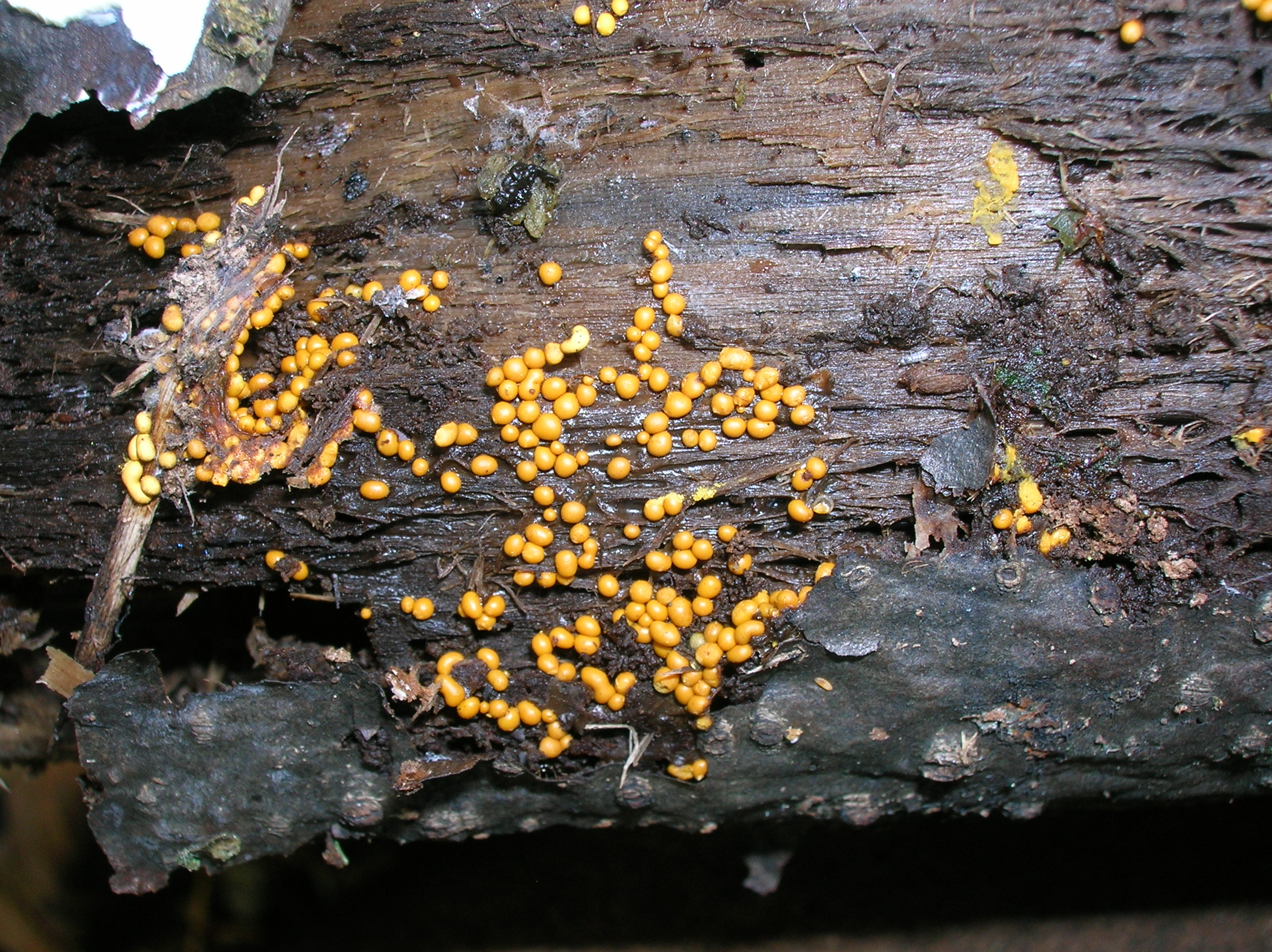 The fungus Nectria peziza growing on rotting wood at Spier's School in Beith, Ayrshire, Scotland.